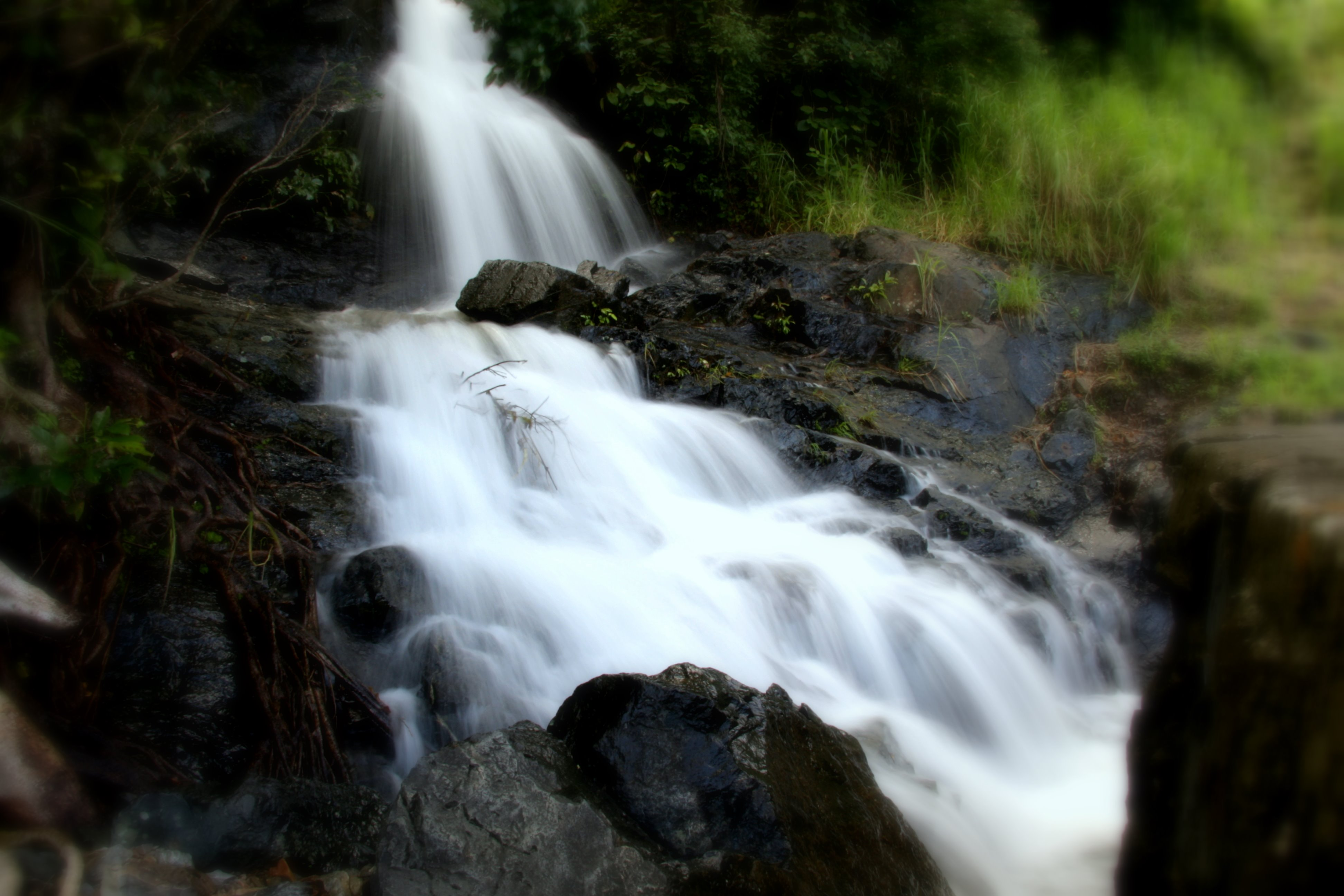 Lake Morris Road